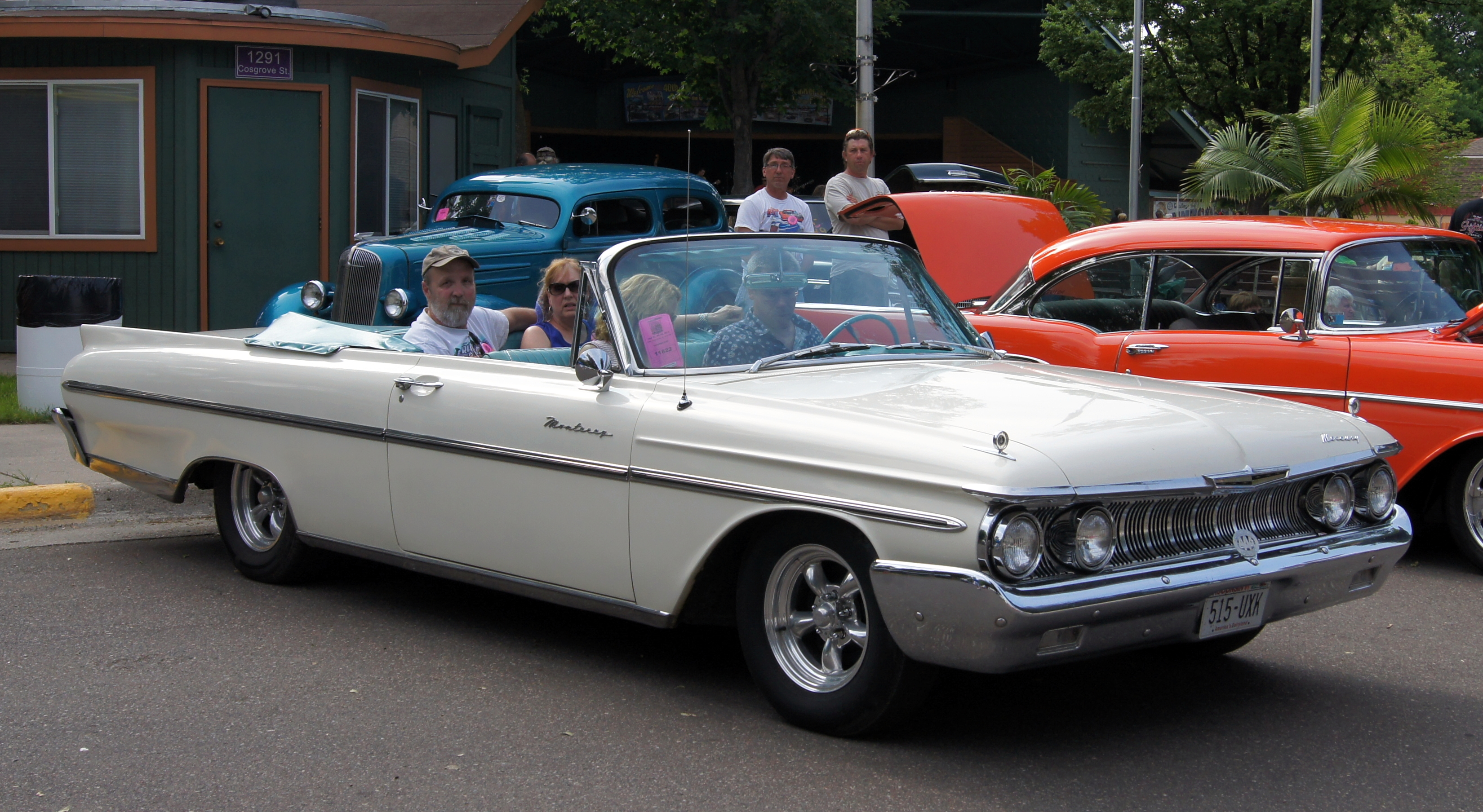 MSRA “BACK TO THE 50′s” 40th ANNIVERSARY June 21-23, 2013 State Fairgrounds St. Paul Minnesota More Car Pictures